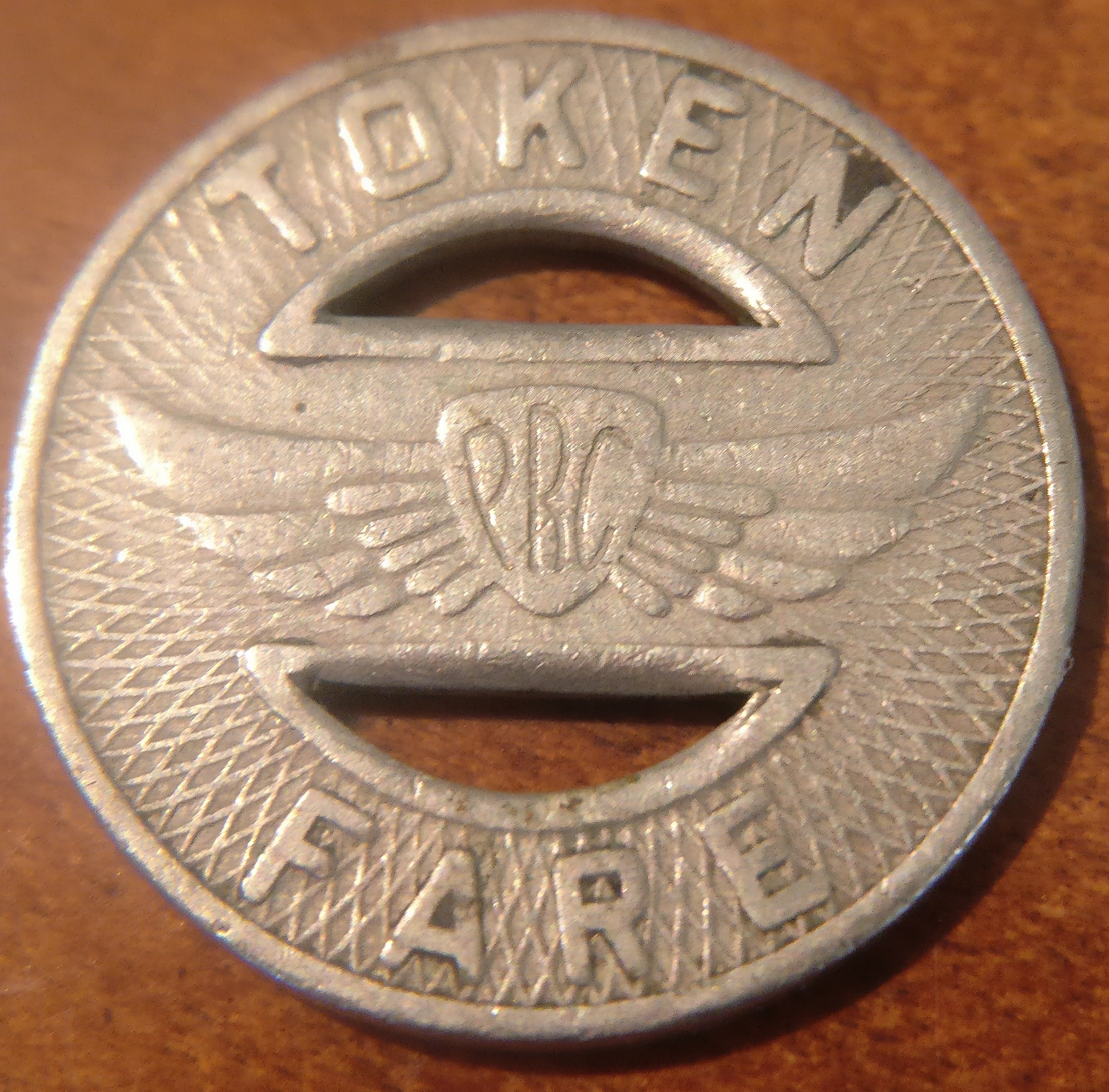 1930s Era Pittsburgh Railways Token Fare - Rear Side